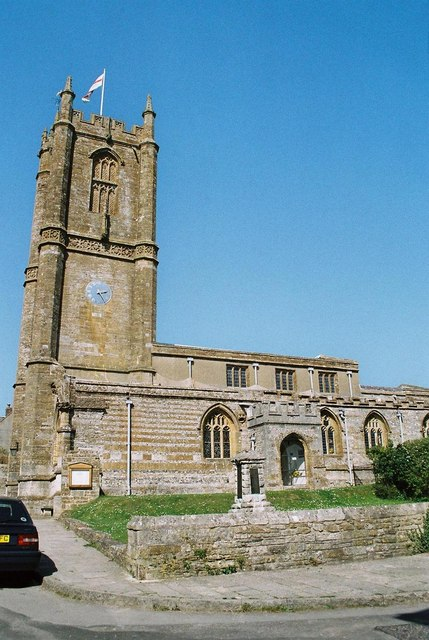 16th-century nave and west tower of St Mary the Virgin parish church, Cerne Abbas, Dorset, seen from the south